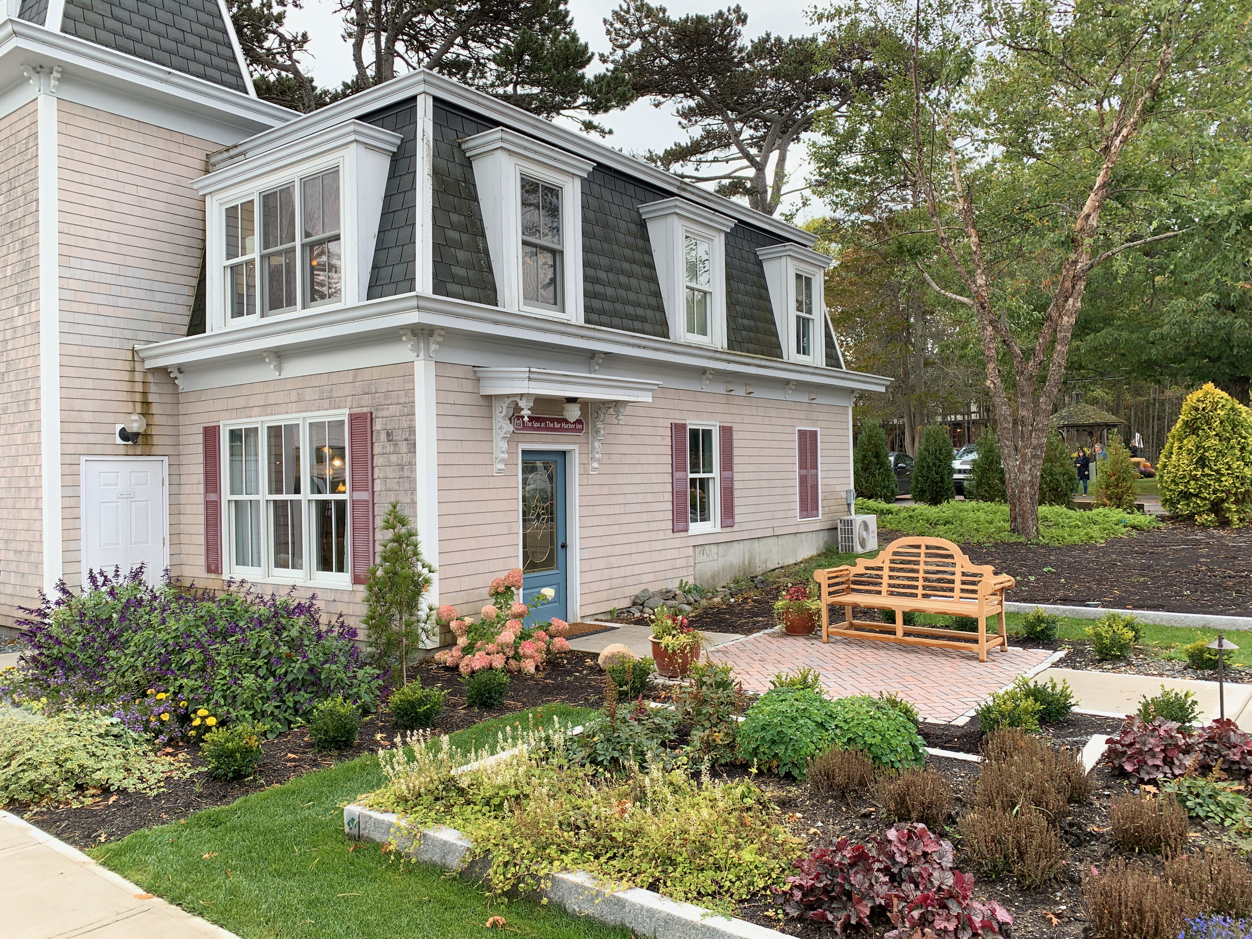 The spa at the Bar Harbor Inn.